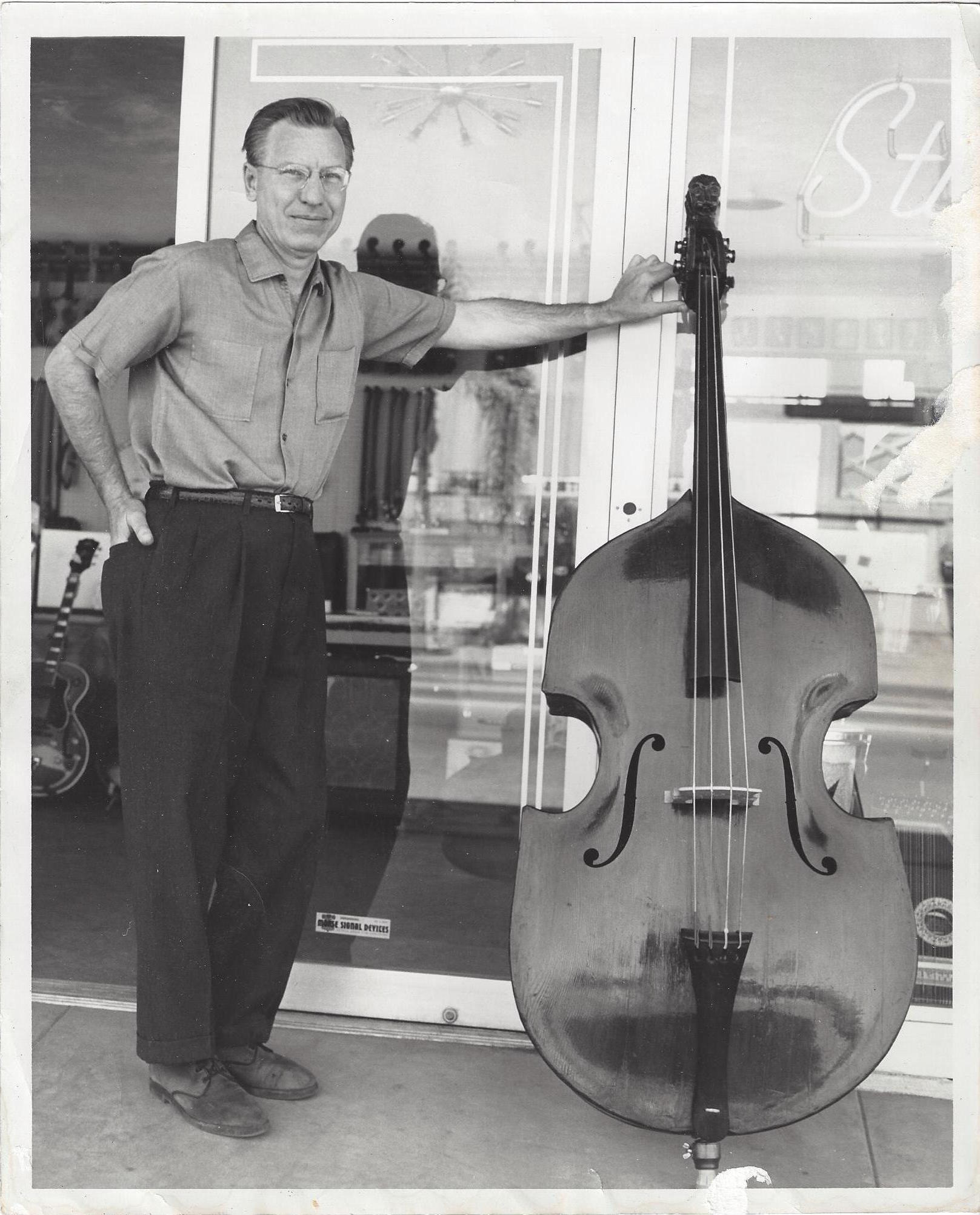 Photograph of Paul Toenniges in front of Studio City Music, Studio City, CA.